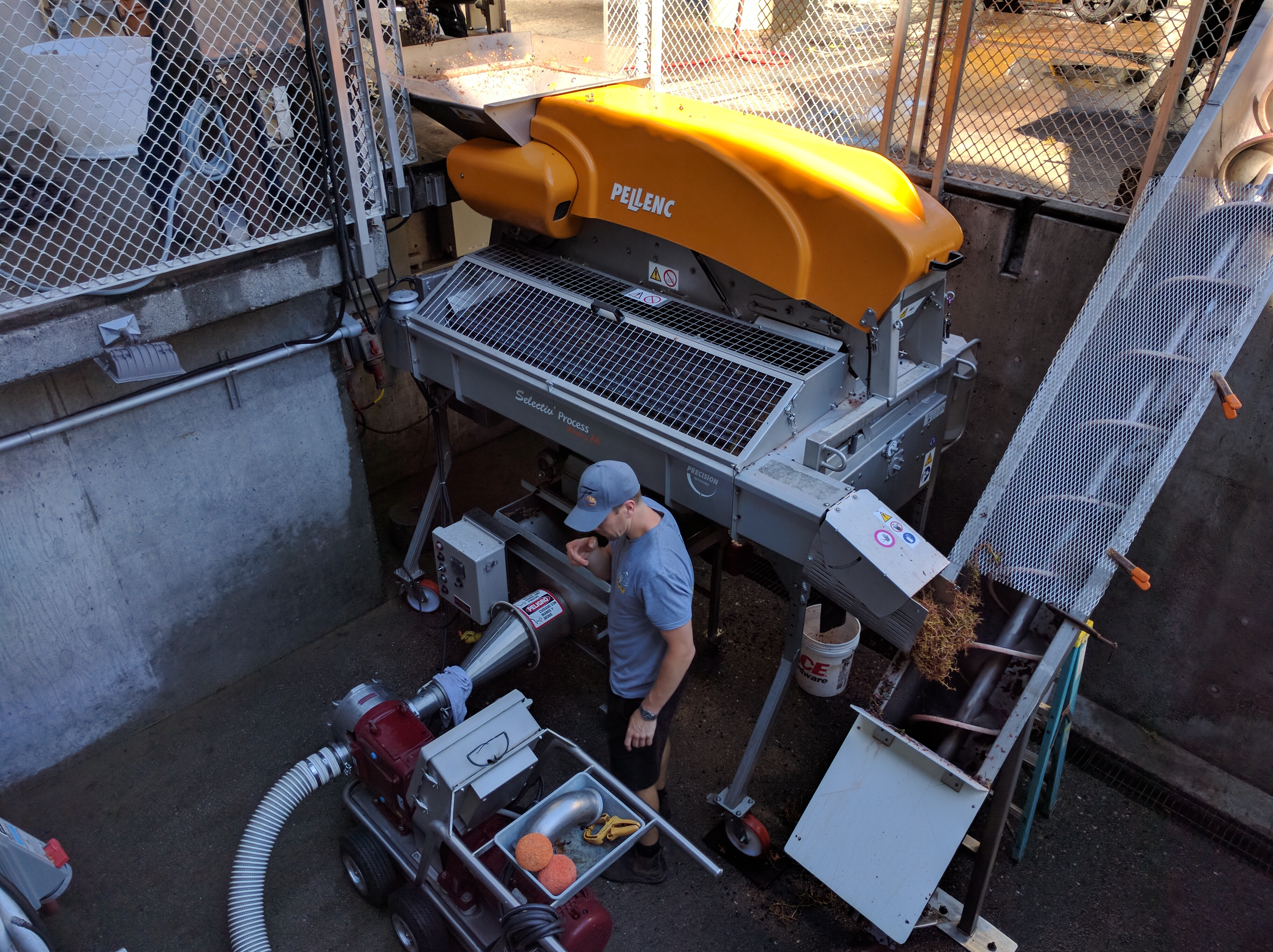 A grape processing machine at Chateau Montelena Winery in Calistoga, California. Grape clusters are loaded via forklift from plastic bins onto a vibrating table, from which they fall into the hopper at the top left; the stems drop out the chute at the right and are carried by a screw conveyor to a truck above. The destemmed grapes then enter the tube at the lower left for further processing.